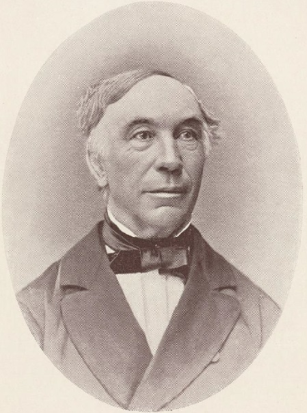 Inset/Title Page art to 1914 edition of Asbjornsen & Moe's Norske folkevisor, by Theodor Kittelsen, artist, d. 1914